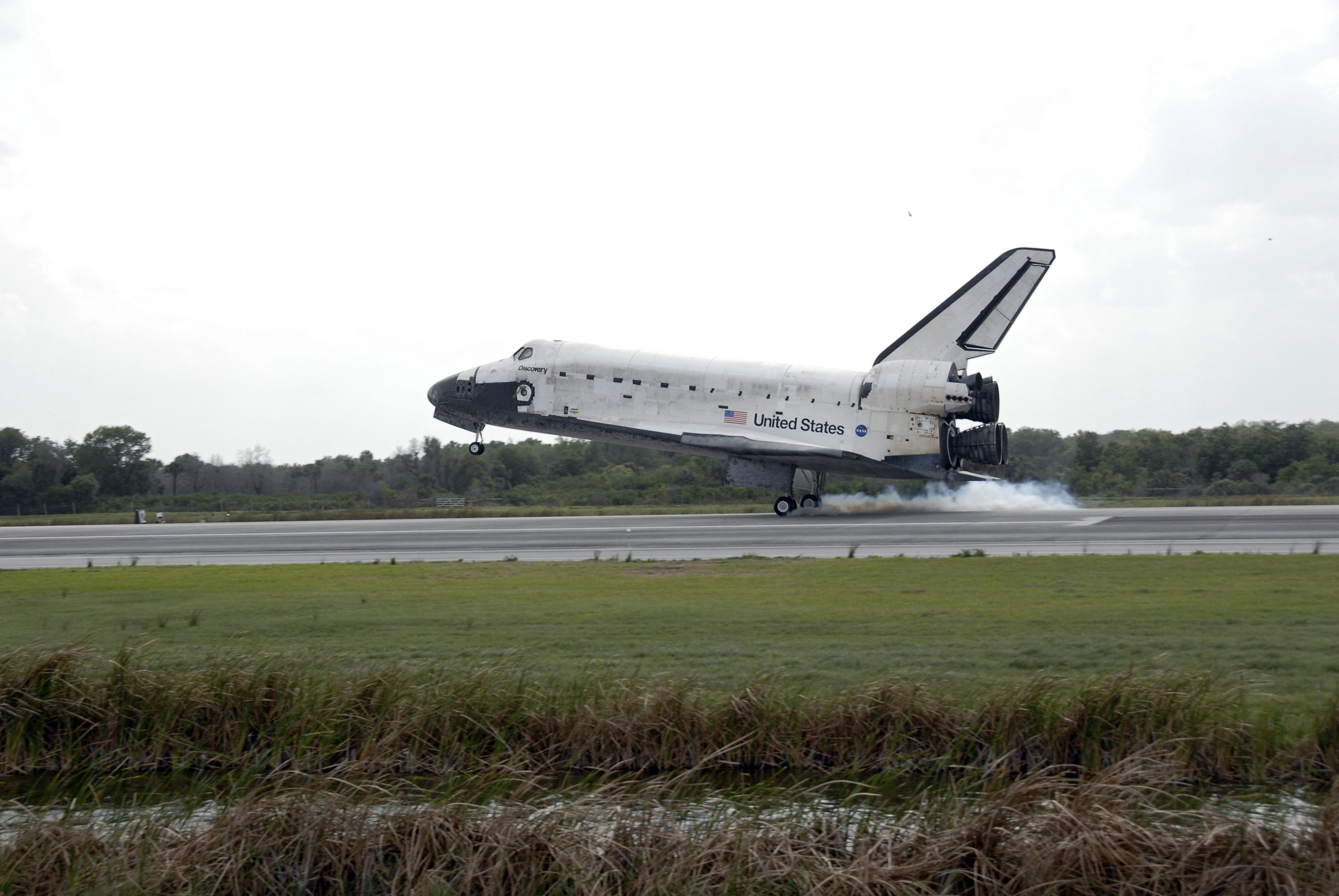 The space shuttle Discovery lands at the Kennedy Space Center after a successful STS-119 mission